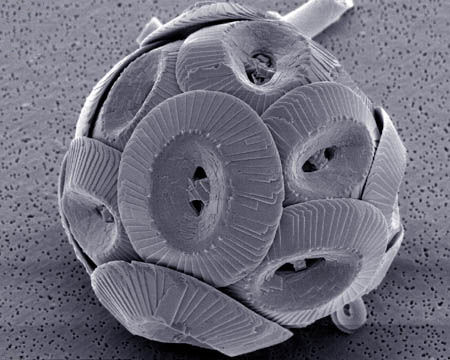 Coccolithus pelagicus ssp. braarudii. Coccolithus pelagicus; coccosphere. Location: N. Atlantic; 48N, -20E; 3200m image sets Taxa - Coccolithophores - London NHM/Roscoff